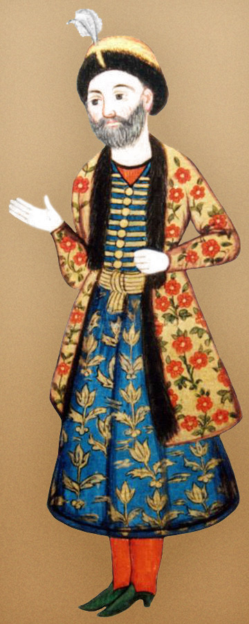 King David I of Kakheti